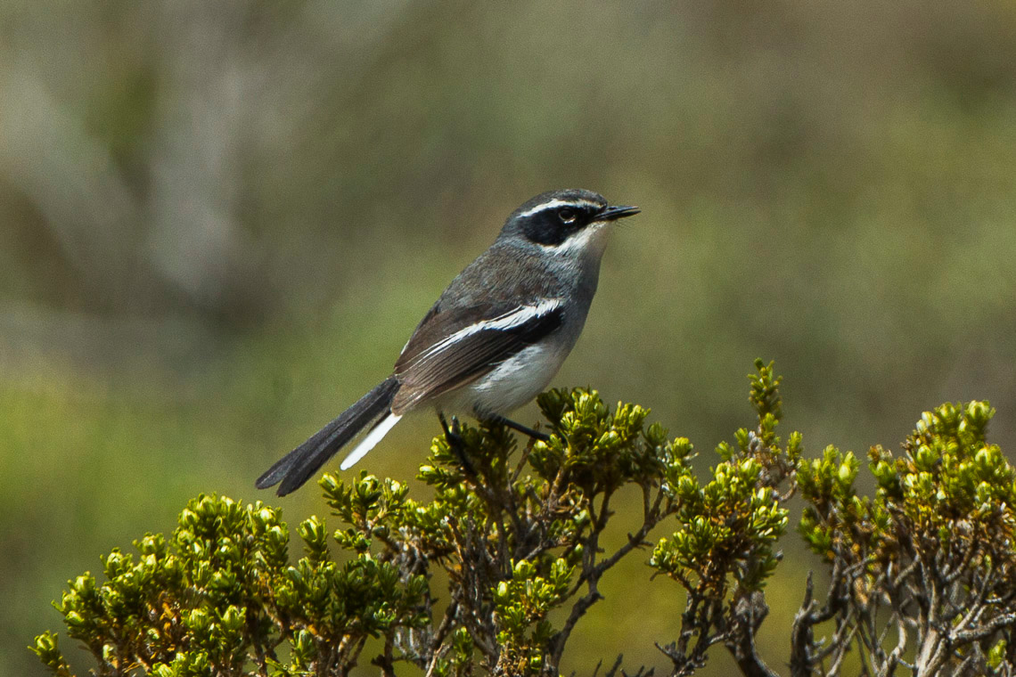 Fairy Warbler - South Africa_S4E7312